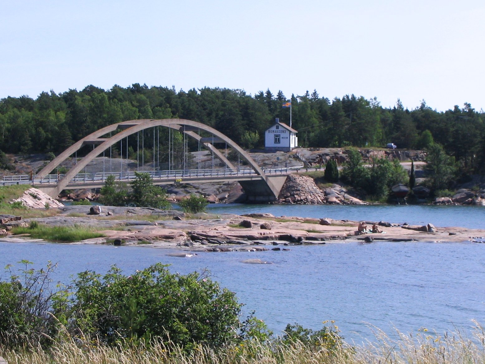 Bridge to Prästö in Sund municipality in Åland archipelago, Finland